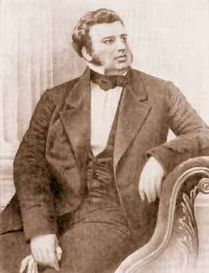 The Russian conductor Yuri Golitsyn.